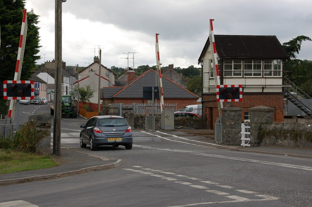 Poyntzpass level crossing This is the level crossing at Poyntzpass station on the Belfast-Dublin line. The station is served by local trains in the morning and evening peaks only. The signal cabin is disused - the signals being controlled remotely. The crossing is a full barrier one replacing the old gates which were opened and closed by the signalman using a wheel in the cabin.